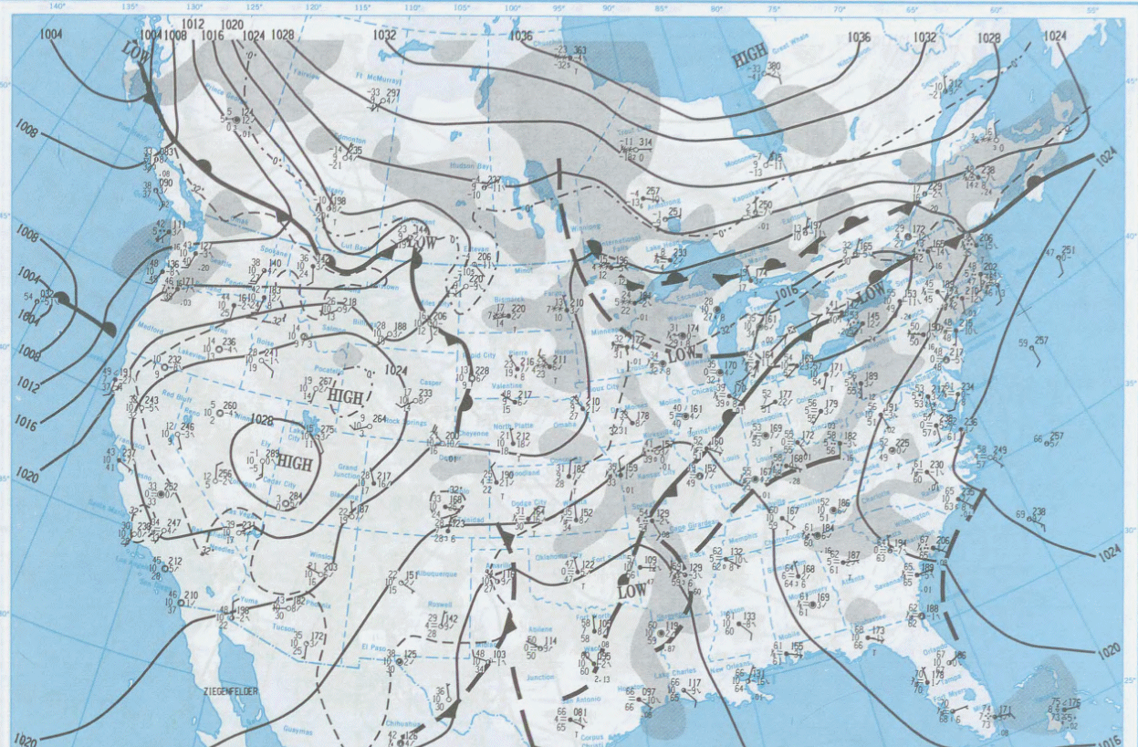 Surface weather map of Januray 6th, 1998, caracteristic of the atmospheric circulation during the 5 days of the North American ice storm of 1998. There is a strong arctic high pressure system located across north central Canada migrating toward Quebec and Labrador. At the same time, a low pressure is quasi-stationnary over lake Erie and Ontario with a stationnary warm front toward New England. This create a strong pressure gradient between those two systems. This stronger gradient and clockwise flow around high pressure accounted for a strengthening flow of cold, dense air from northeast Quebec southwest down the St. Lawrence River Valley of Quebec into the St. Lawrence River and northern Champlain Valleys in New York and Vermont. At the same time, the flow was from the south, south of the warm front.